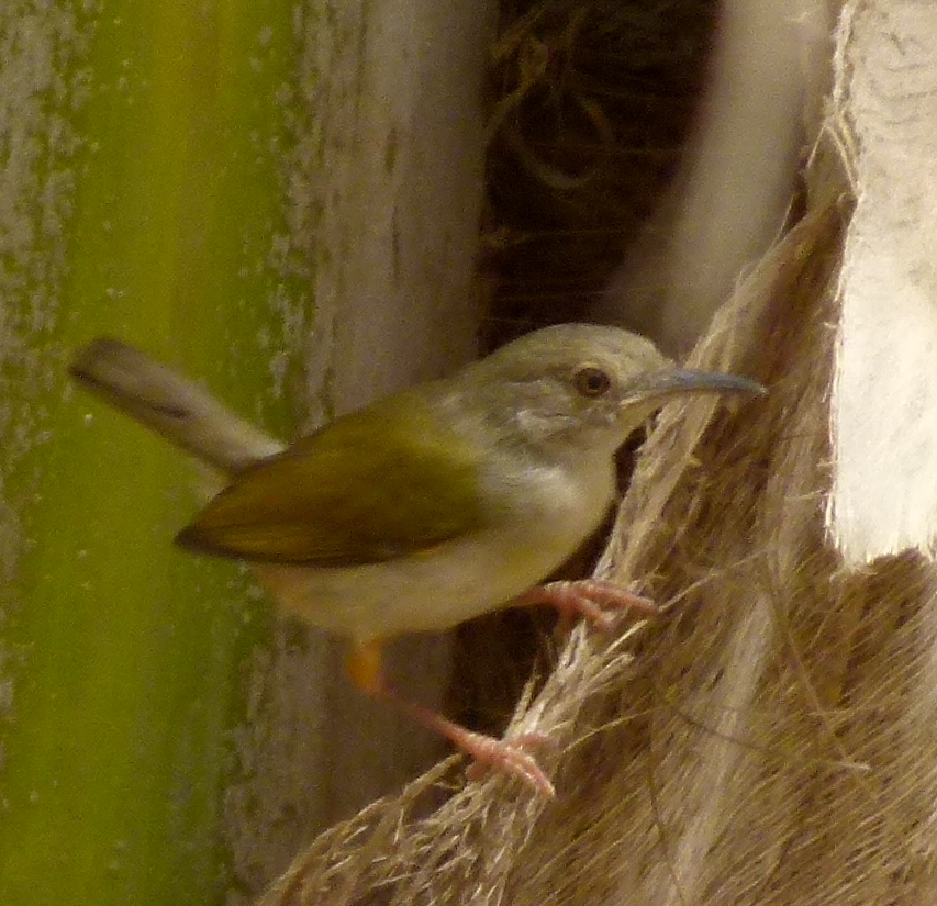 Grey-backed camaroptera (Camaroptera brevicaudata) photographed near Keur Samba Ja, Senegal